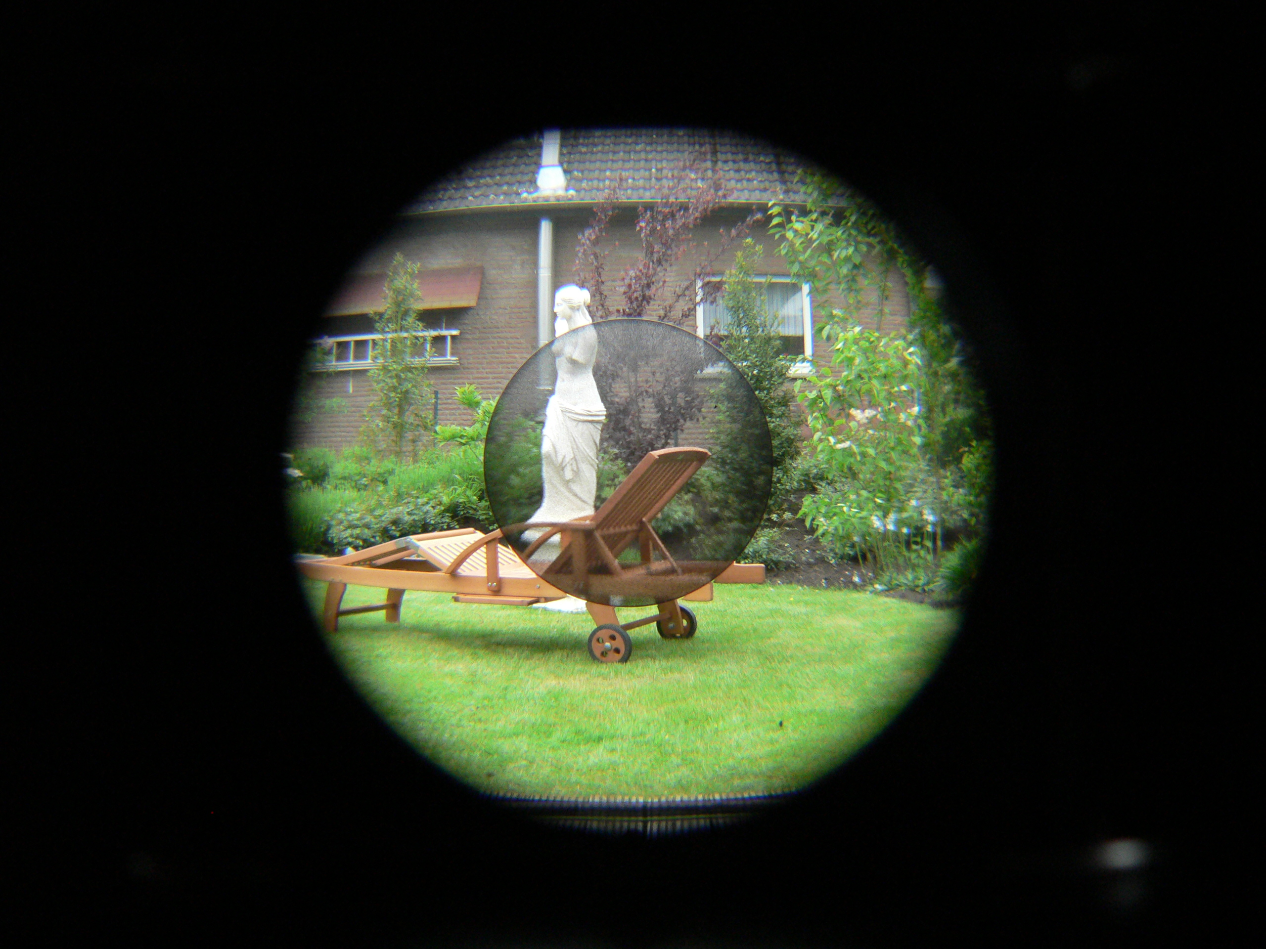 Viewfinder of a Lubitel 166 U